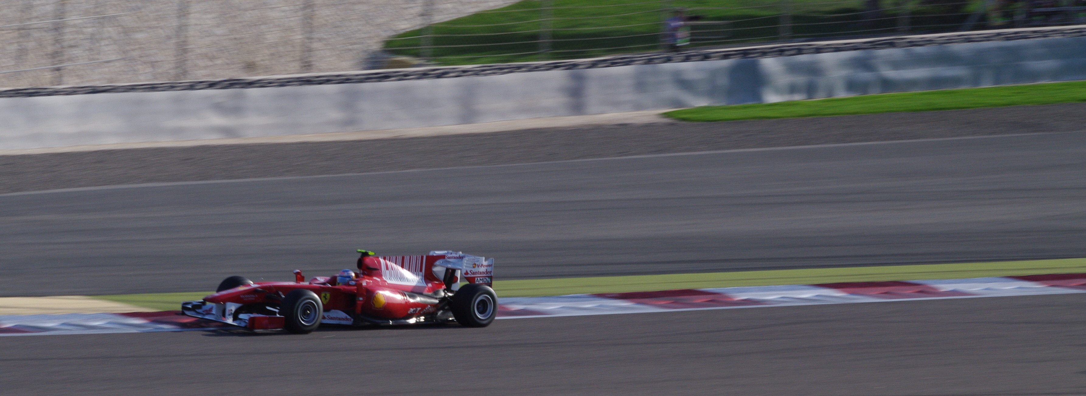 Alonso Leads to Victory